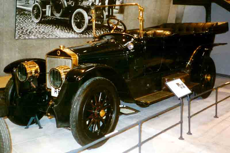 Scania-Vabis 3S Phaeton 1912